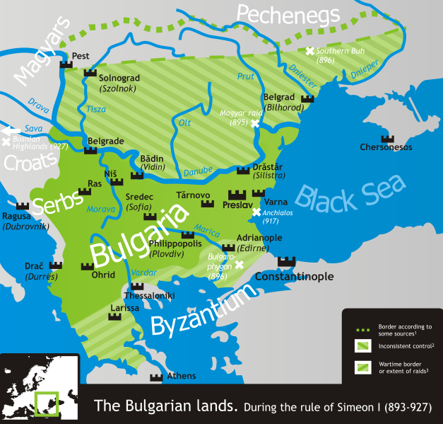 Bulgaria_Simeon_I_(893-927)